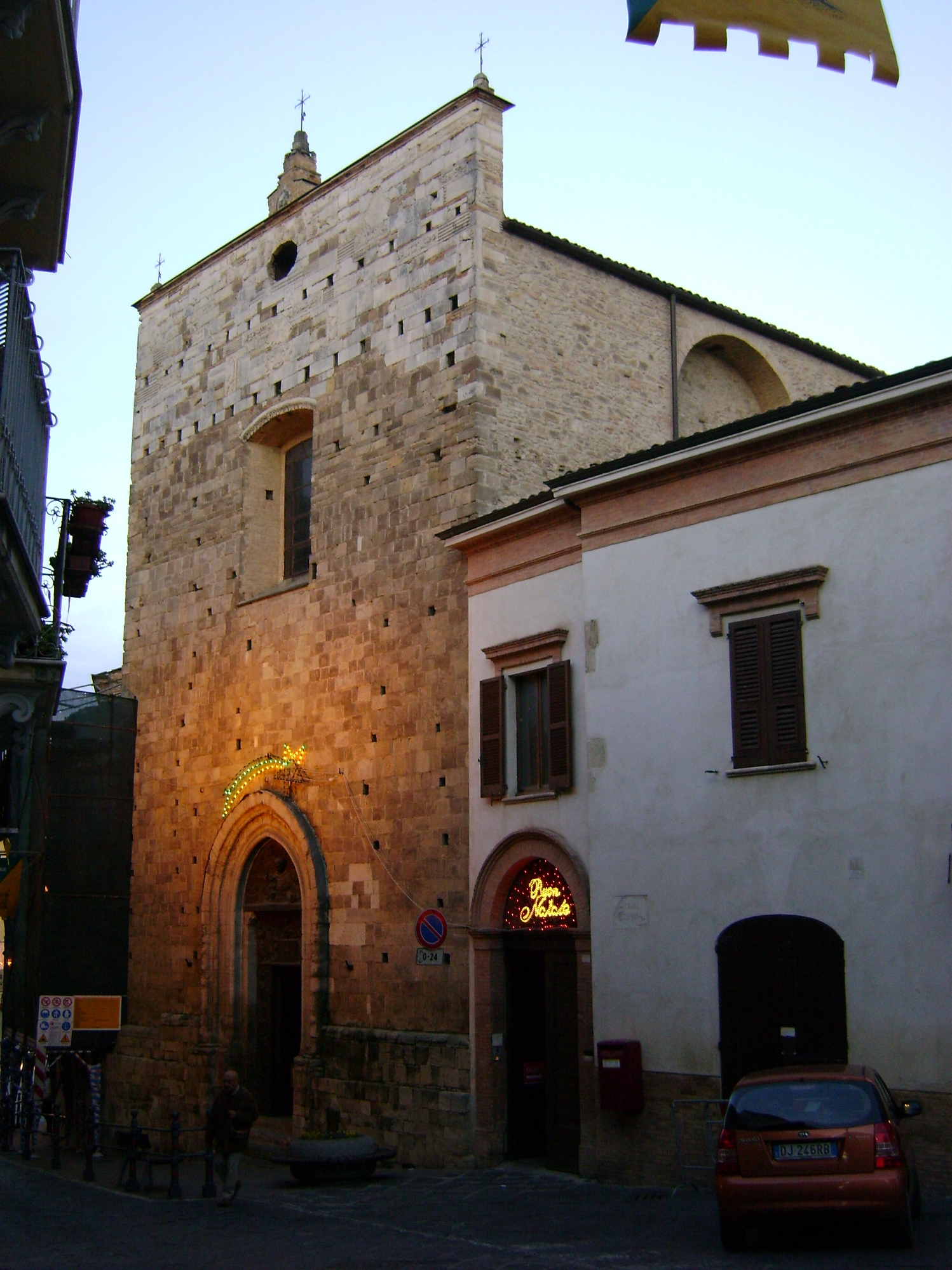 The facade of the church of St. Francis in Lanciano, province of Chieti, Abruzzo